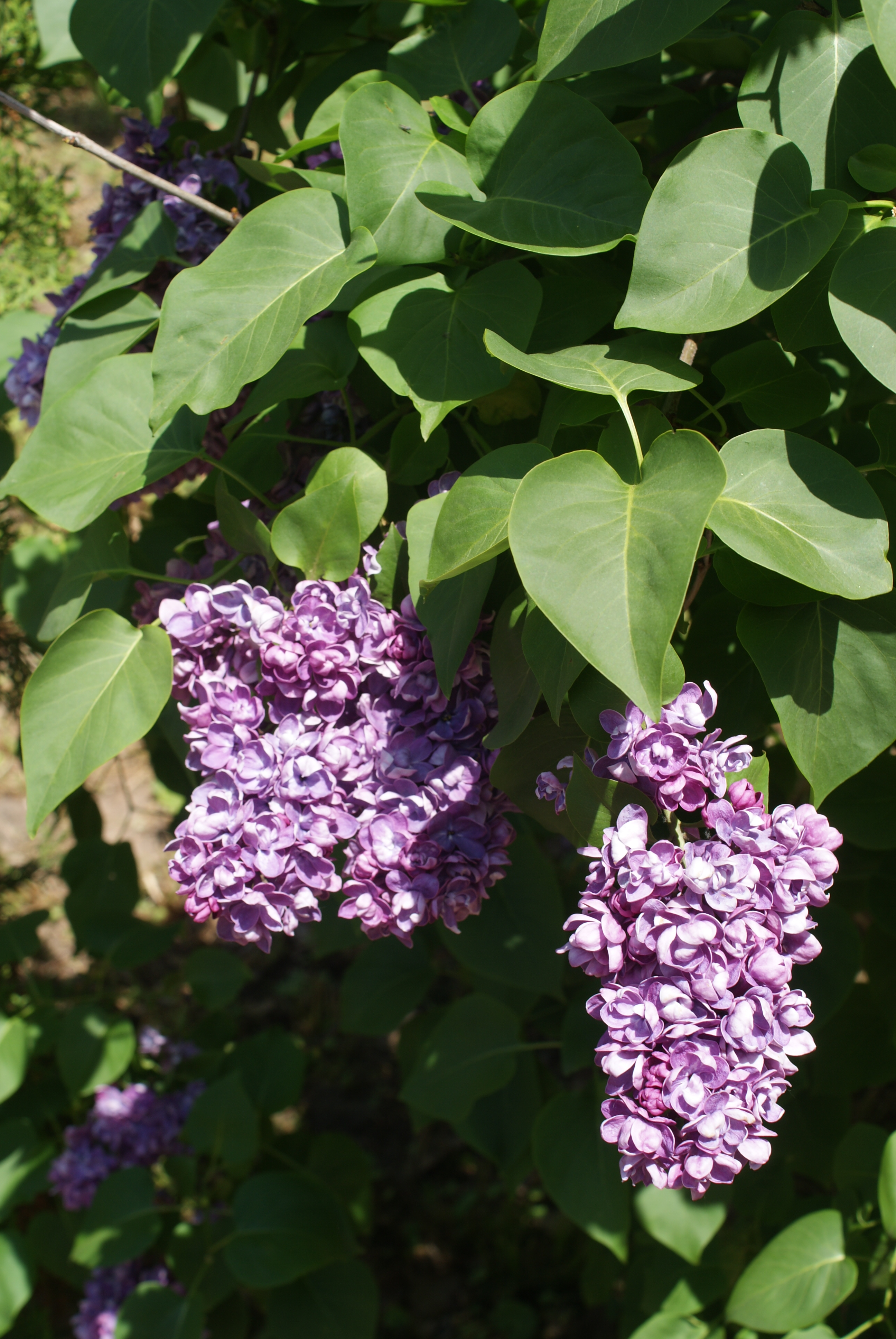 Syringa 'Taras Bul'ba'